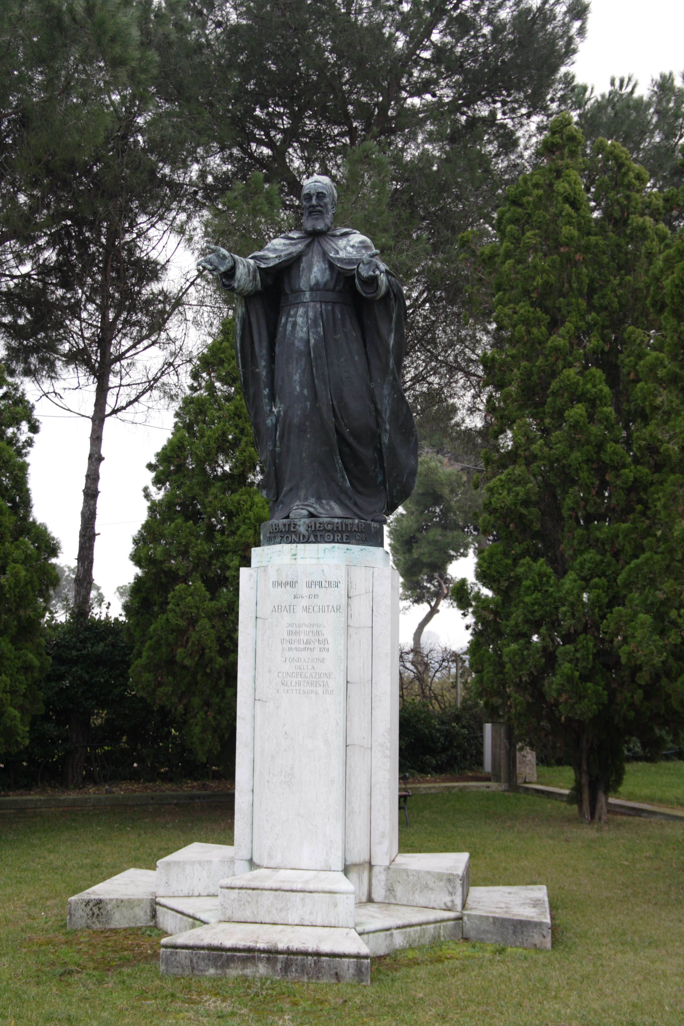 San Lazzaro degli Armeni